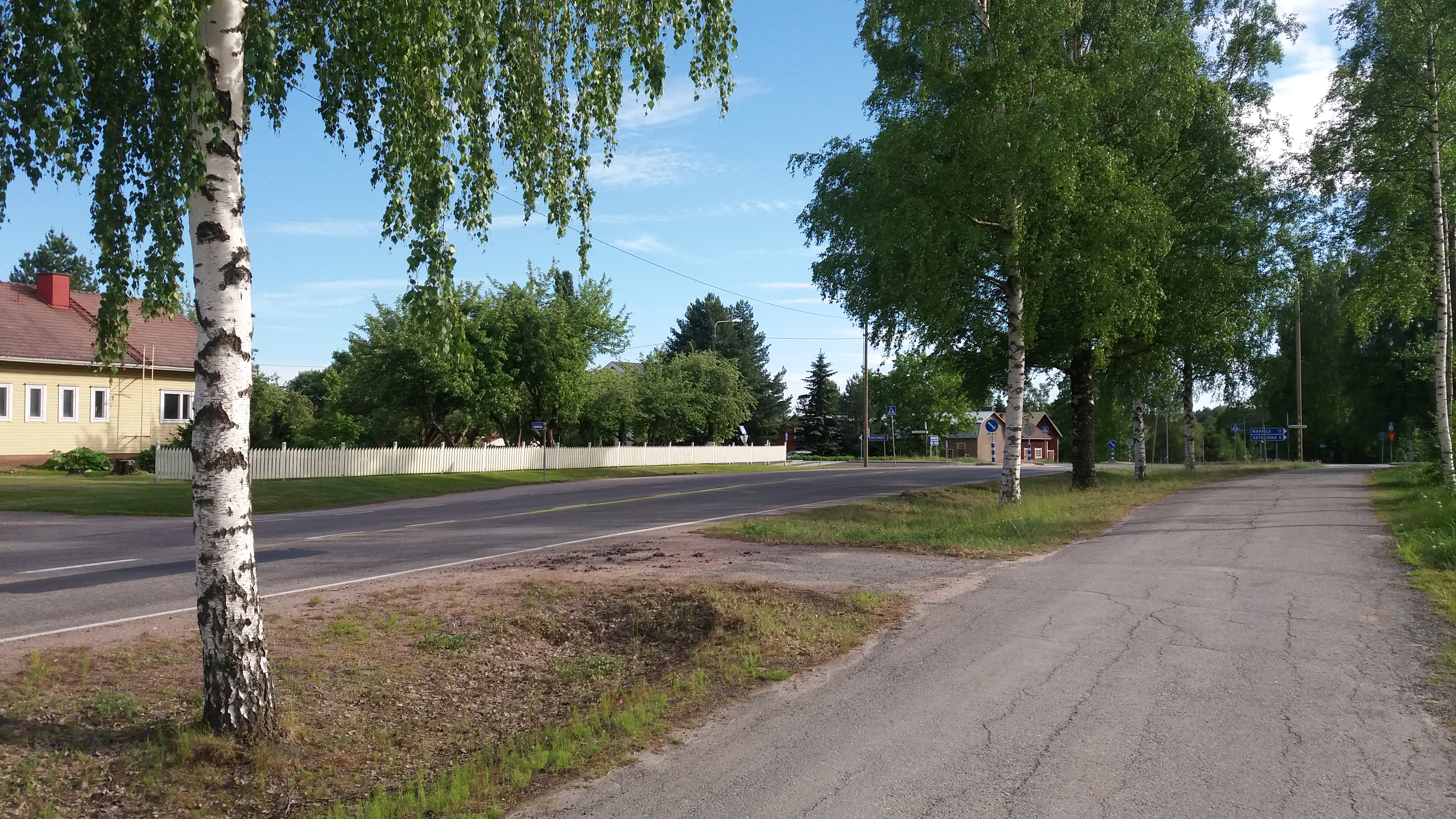 View from Vinnari, Harjavalta, Finland.